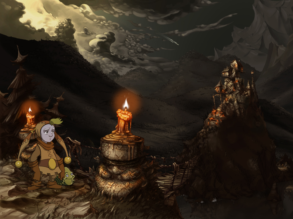 A screenshot from the computer game „The Whispered World“.